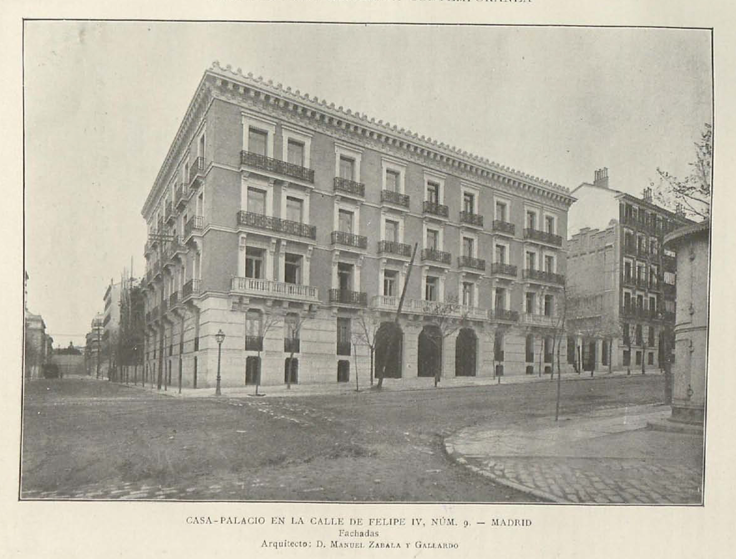 Fachadas de la casa-palacio, calle de Felipe IV, nº 9, Madrid.